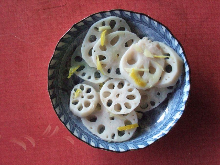 An example of lotus root food, Vinegared food with ginger and citron(レンコン料理の一例；生姜と柚子入りの酢の物)